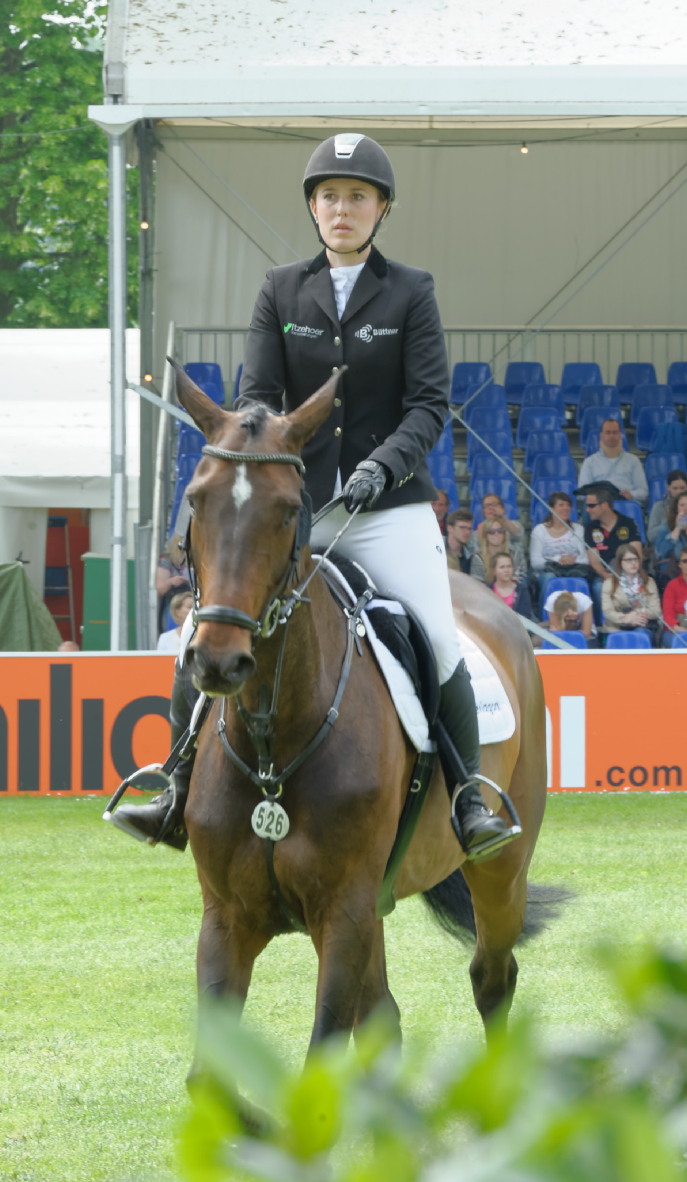 CSIYH* int. Springprüfung nach Strafpunkten und Zeit Internationales Pfingstturnier Wiesbaden 2015 The making of this document was supported by the Community-Budget of Wikimedia Germany.